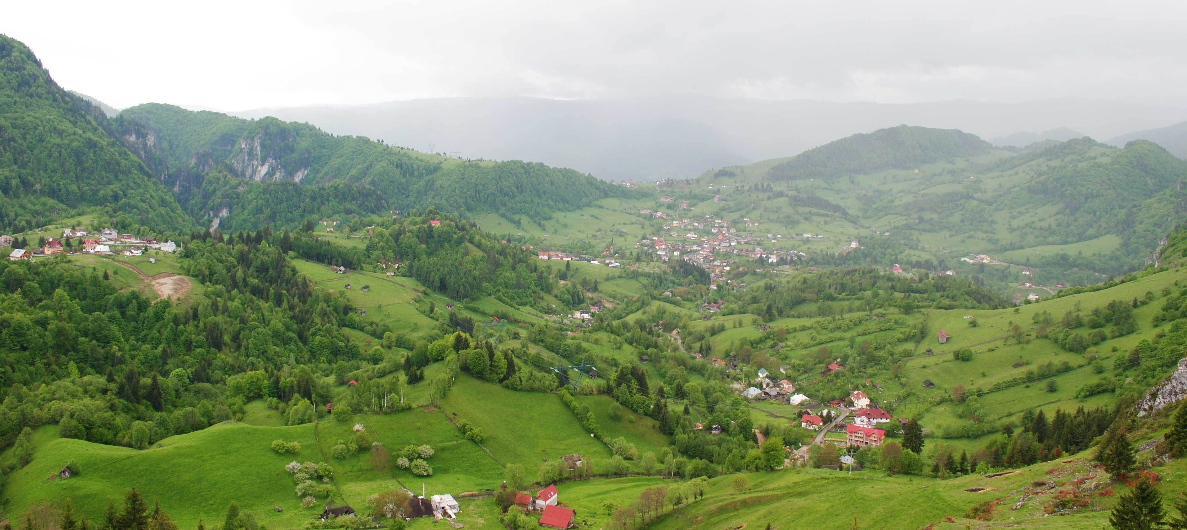 Podu Dambovitei village: Between Rucar and Bran, Piatra Craiului Mountains